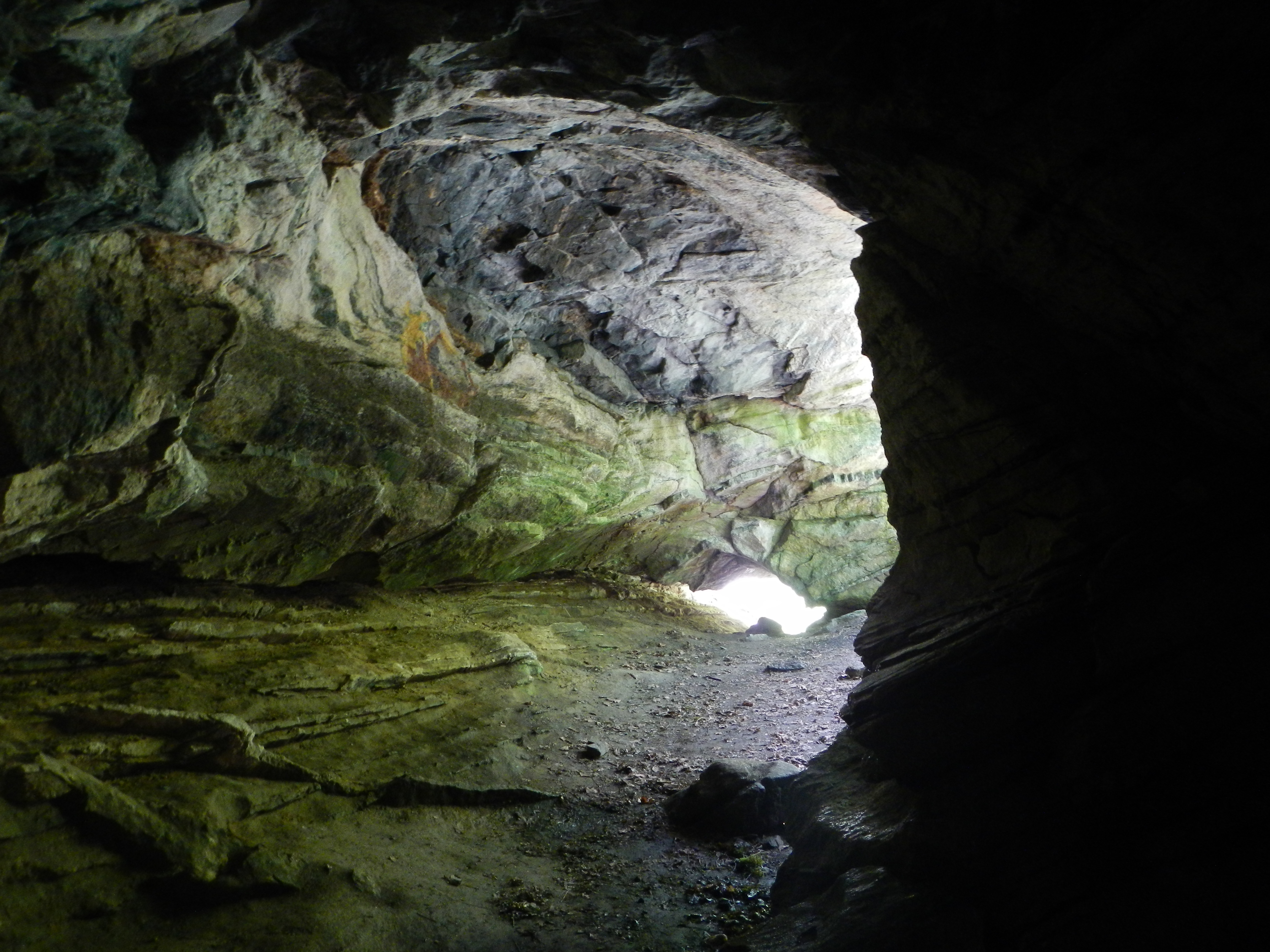 Gudenus-cave in the valley of Kleine Krems, Lower Austria